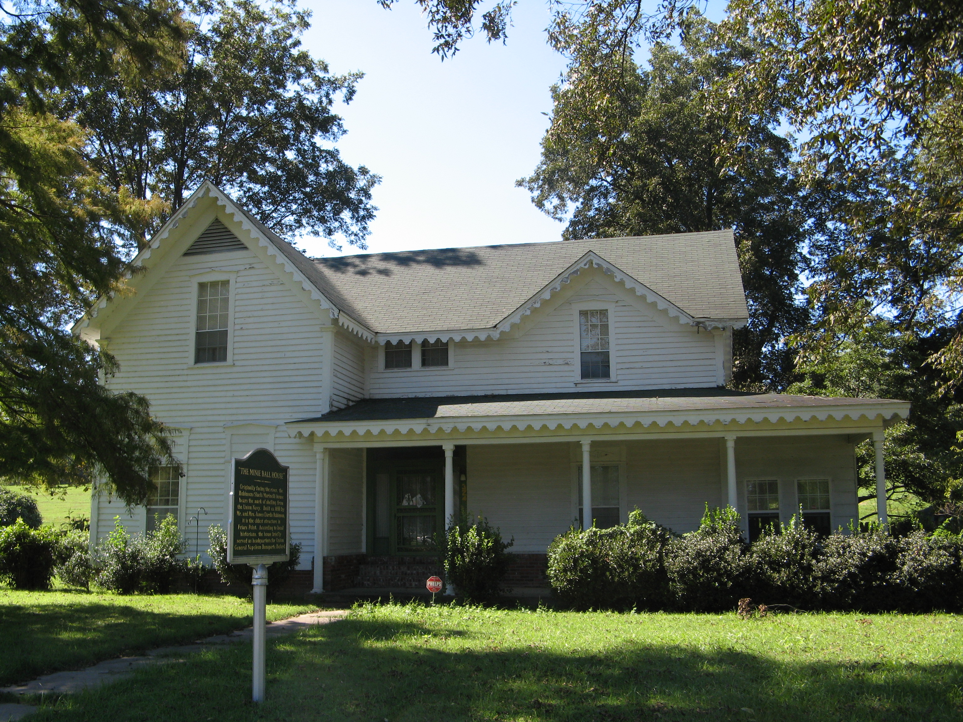 Front of the Minie Ball House, located on the northern side of the 300 block of Second Street in Friars Point, Mississippi, United States. Built in 1850, it is part of the Friars Point Historic District, a historic district that is listed on the National Register of Historic Places.